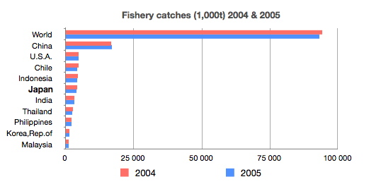 Just some updated data on the global fish catch, the picture is made for topics on Japan primarily